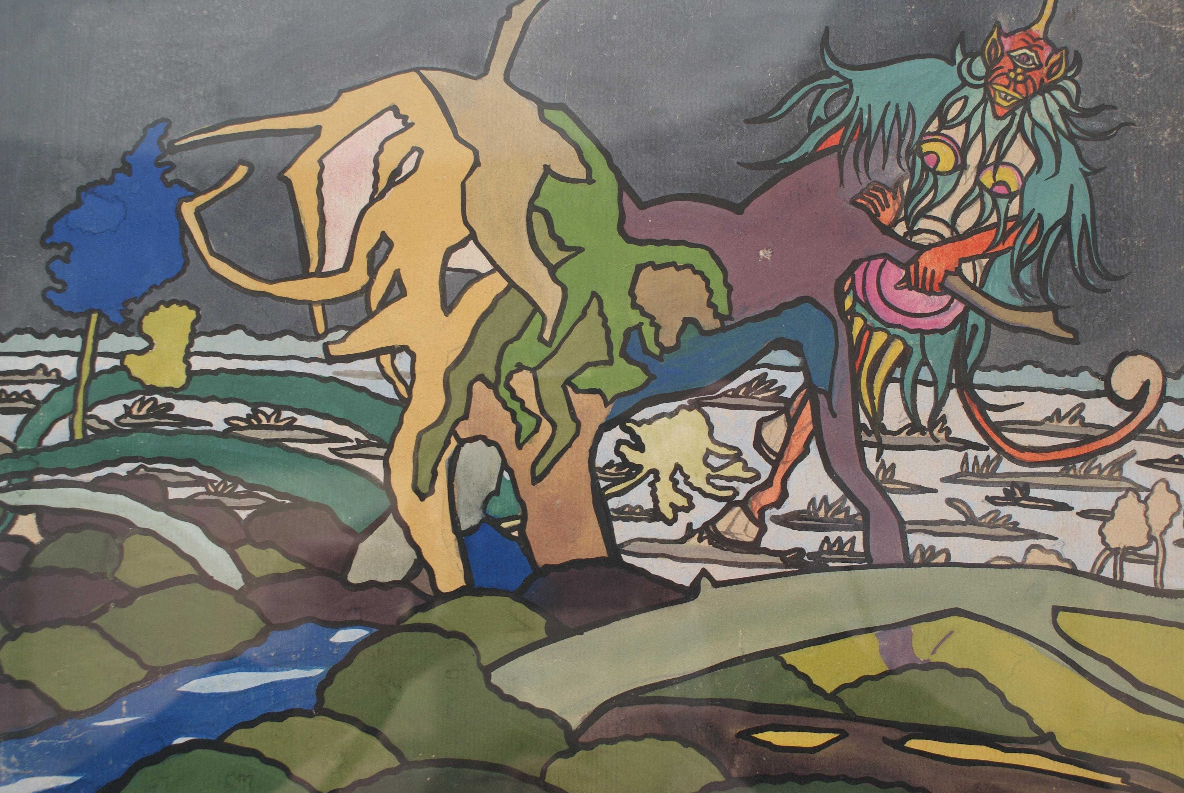 Mikhail Filippovich. Illustration for the Belarussian fairy tale "Poleshuk and Devil". 1924. Gouache on paper